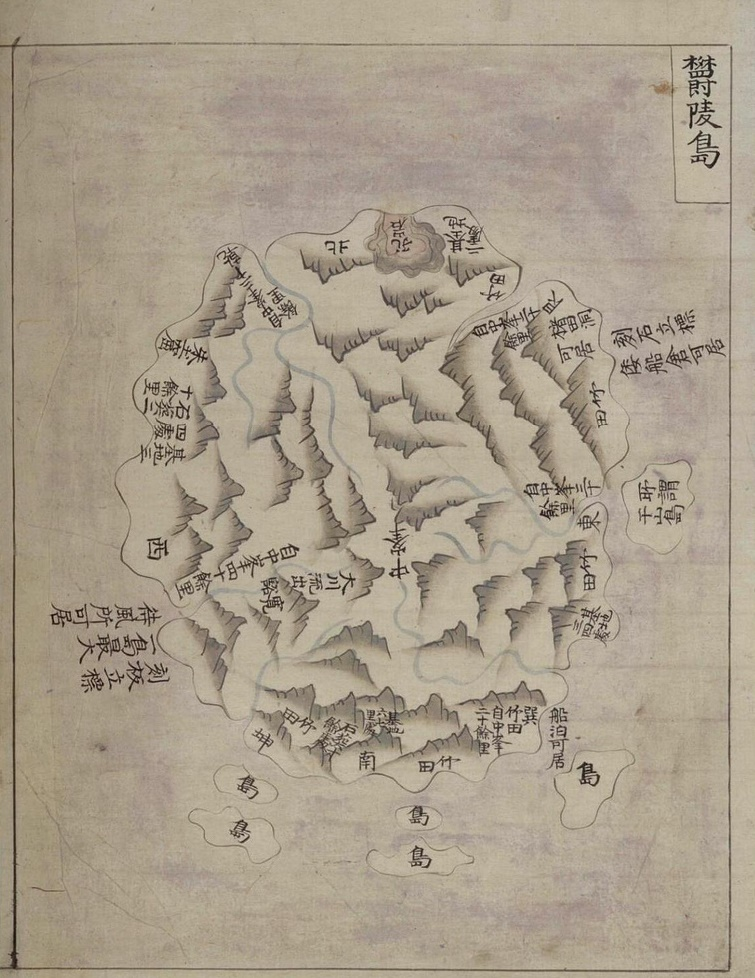 Jeseon Dynasty"Gwang Yeodo"(1737-1776)Ulleungdo